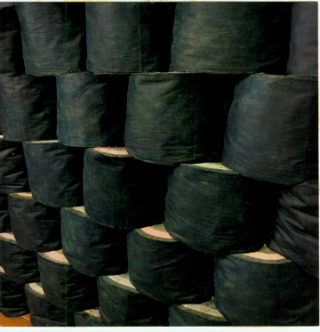 This is a scan of a slide of an artwork by Dutch visual artist Sibyl Heijnen. The title of the work is "The two sides of the same coin 1" and it was created in 1990. This image shows a detail of the artwork's dark side. In 1992, it won the Excellence Prize in the Third International Textile Competition in Kyoto, Japan. The image was uploaded to Wikipedia with permission from the artist.